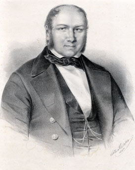 Claus Mohr (1806–1853), German classicist